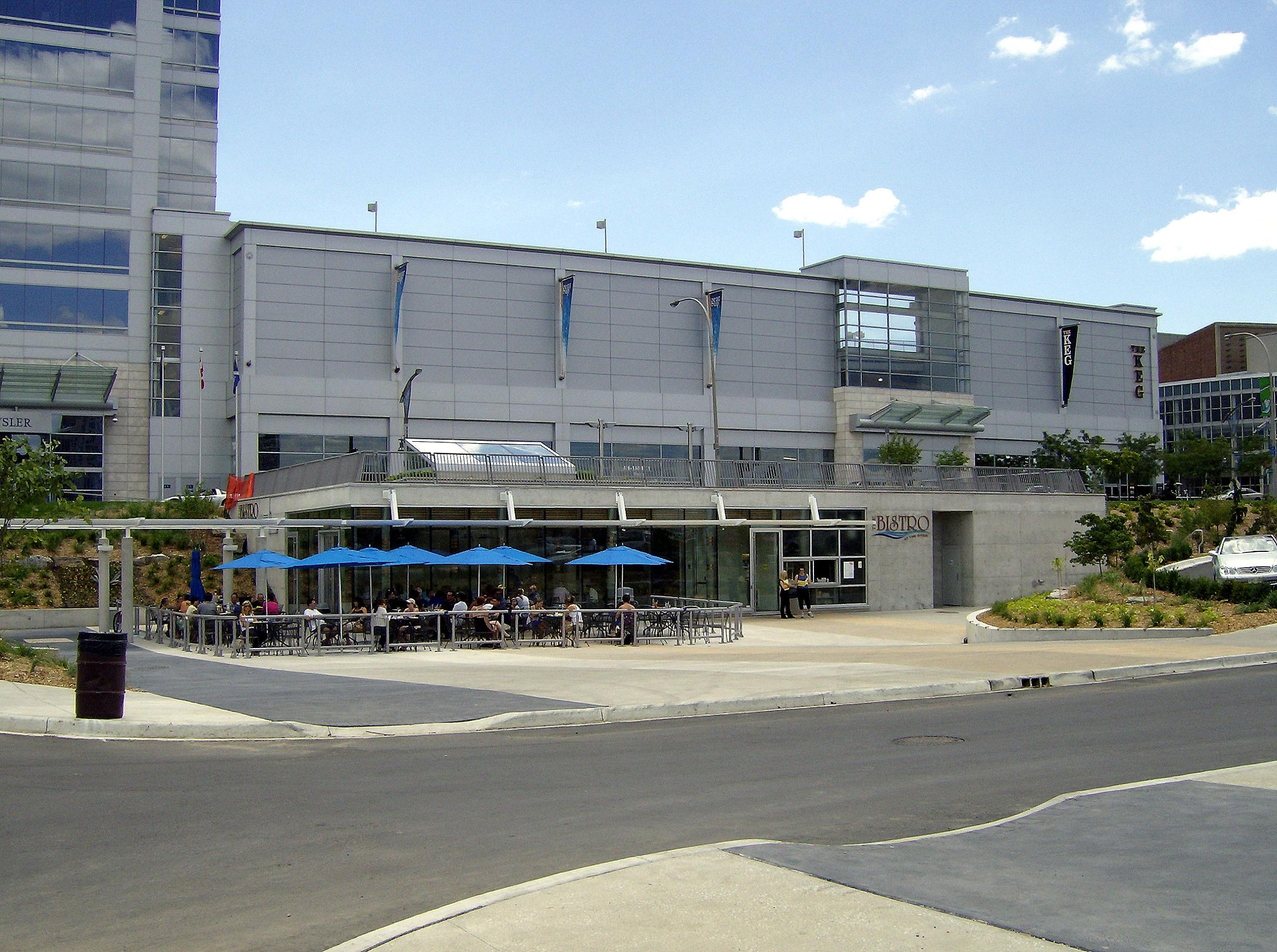 New snack bar in Dieppe Gradens riverfront park, Windsor